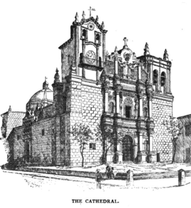 From “Travels in Mexico and Life Among the Mexicans” de Frederick Albion Ober. Publicado por Estes & Lauriat, en 1884.